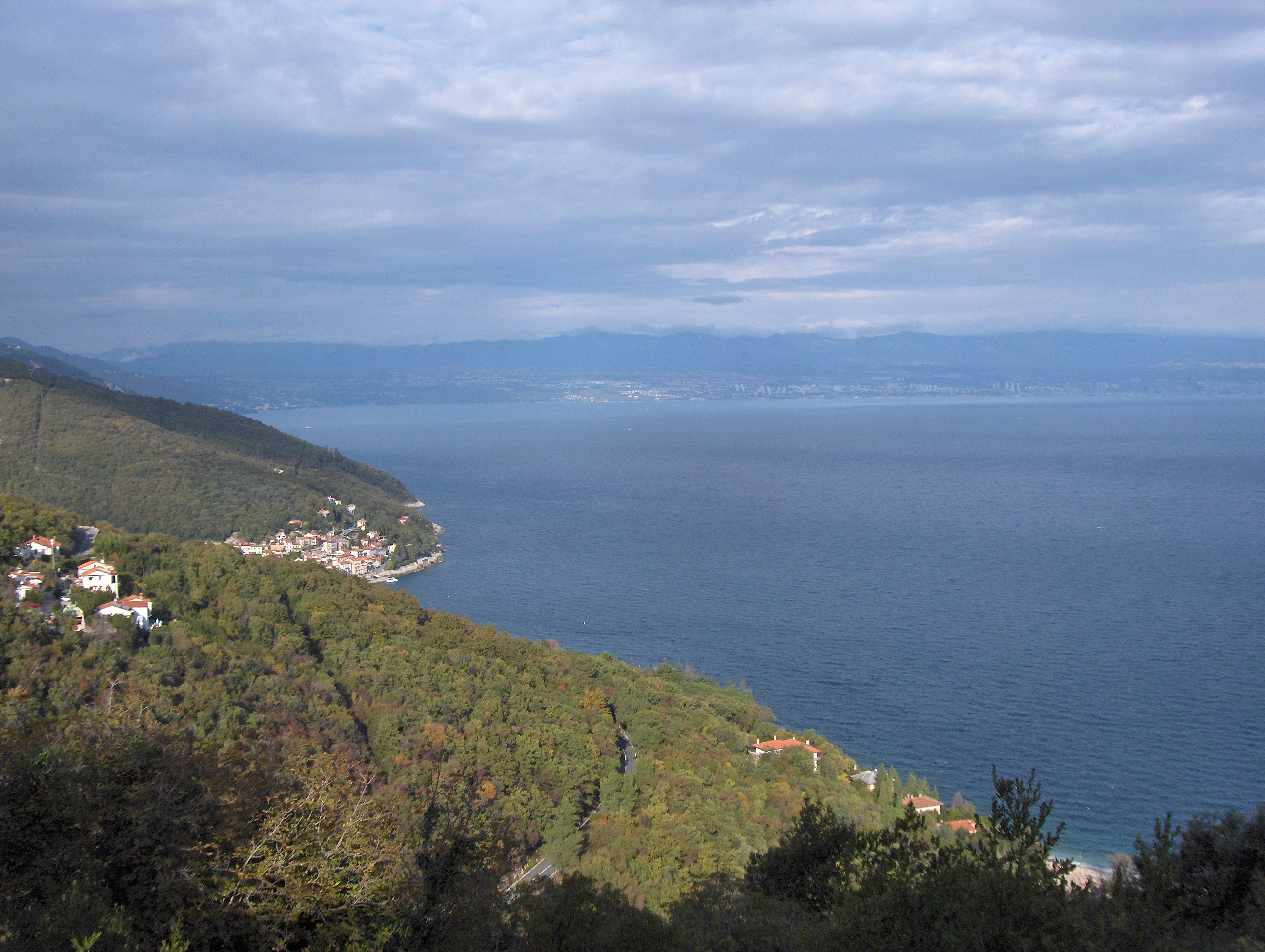 View on the Kvarner Gulf with Lovran (in the foreground) and Opatija and Rijeka in the background; Mošćenice, Croatia